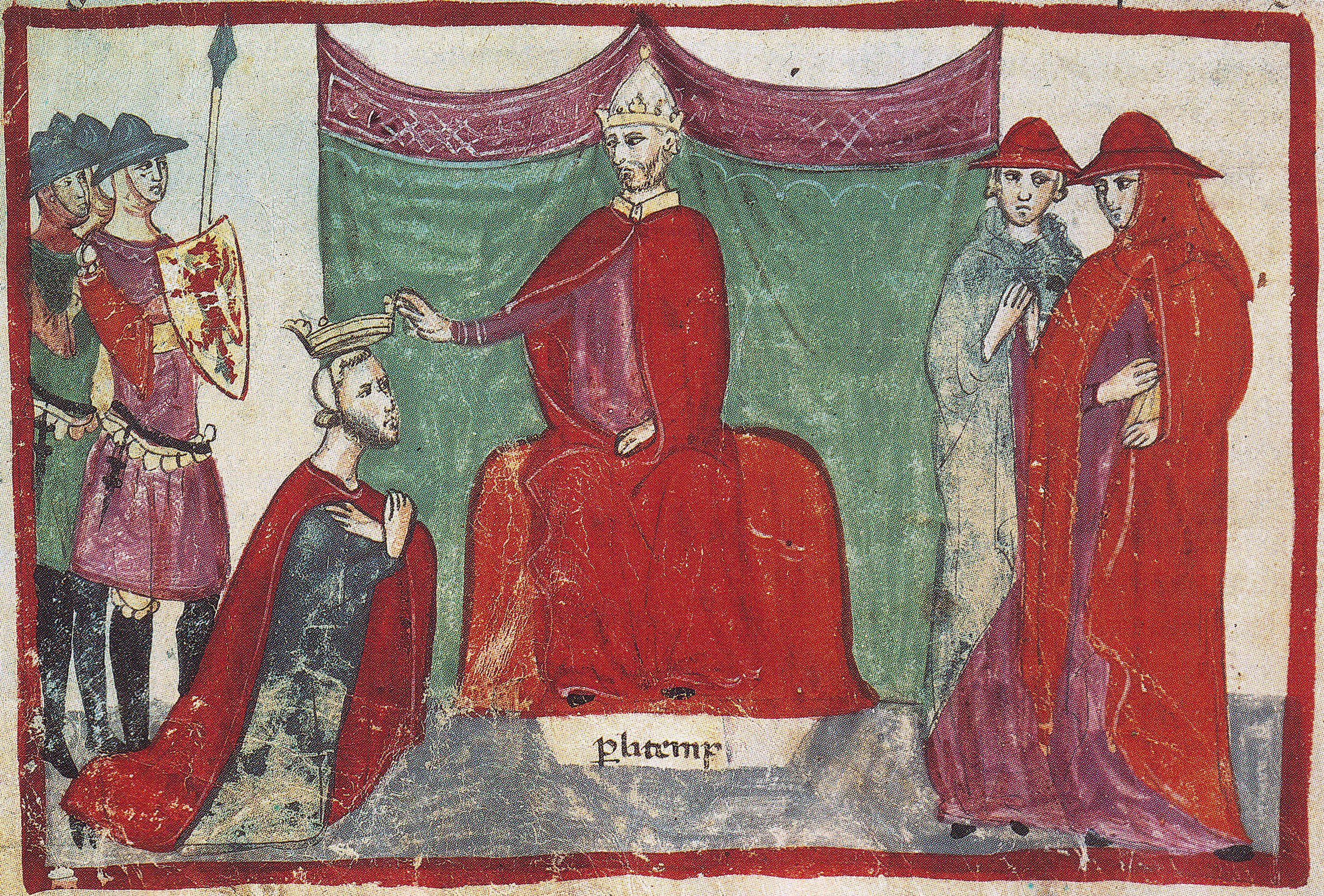 Robert Guiscard is claimed by Pope Nicholas II as a Duke (Illustration of the Nuova Cronica des Giovanni Villani)